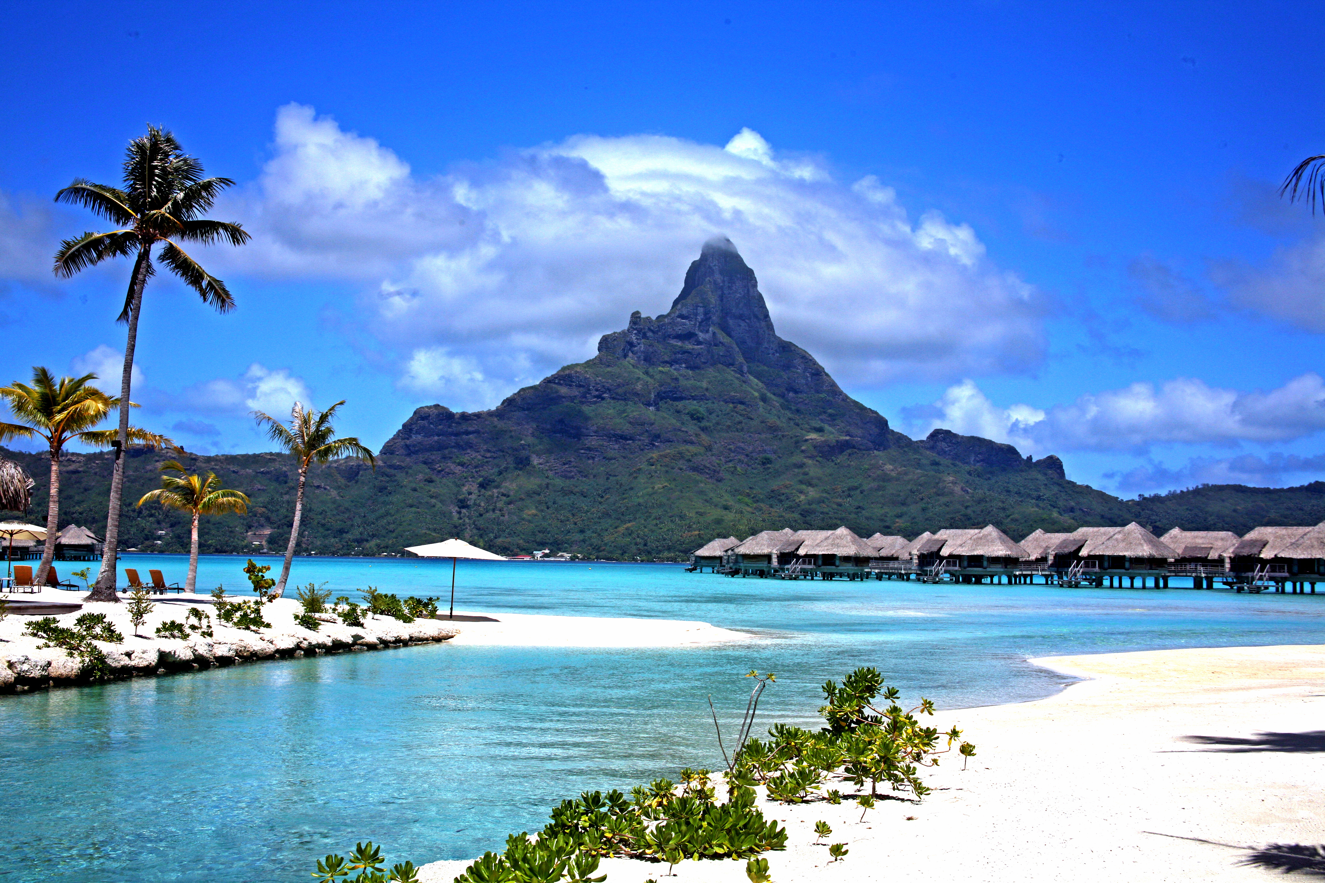 Another day in Bora Bora.